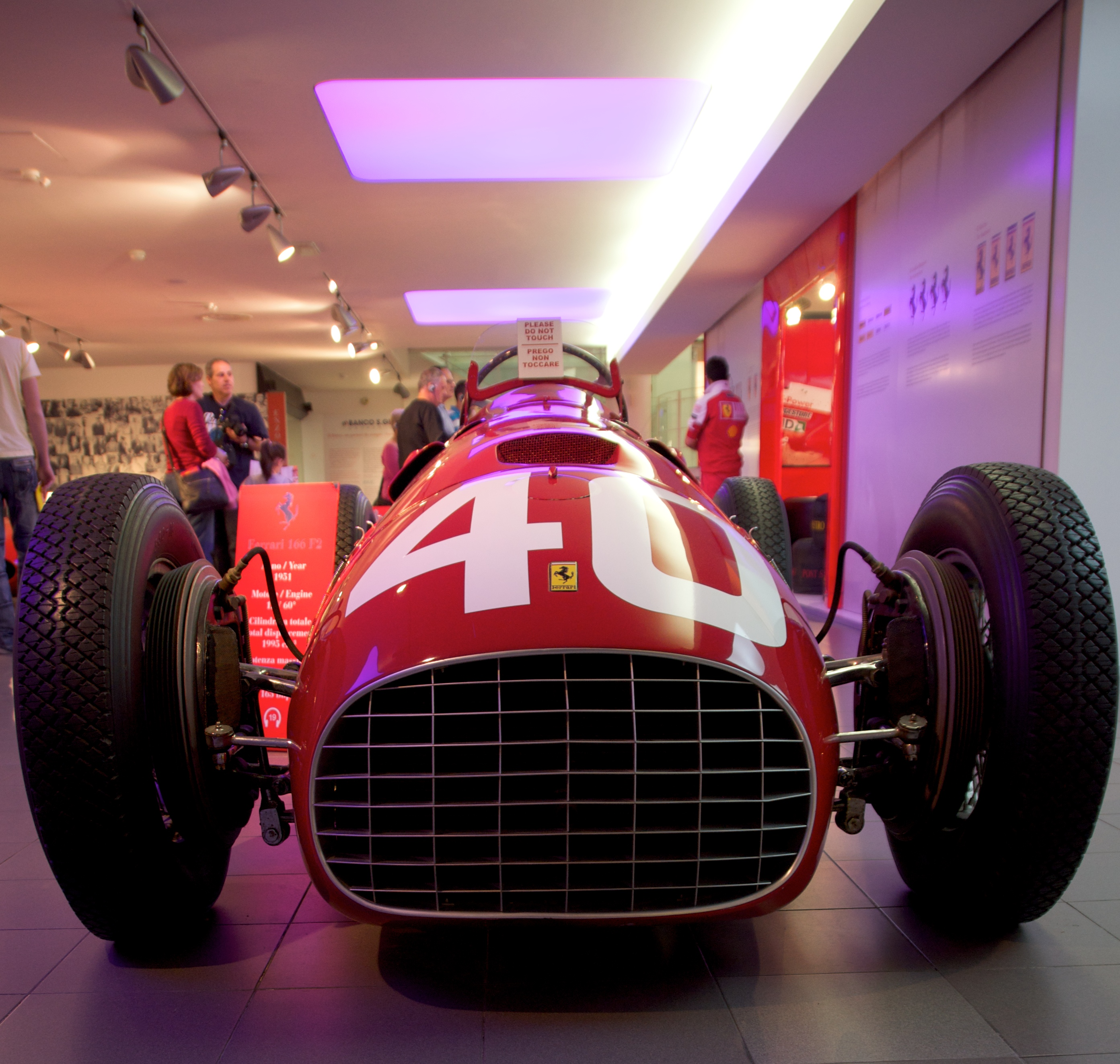 The 166 F2 readied specifically for Formula 2 was developed hand-in-glove with the 125 F1. It made a victorious debut at the Florence Grand Prix on September 26th 1948 with Raymond Sommer at its wheel. Constantly updated and honed, it clocked up an impressive number of wins between then and the end of 1951 when it was replaced by the 500 F2. The 166 F2’s most notable victory was in the 1950 German Grand Prix in which it was driven by Alberto Ascari.